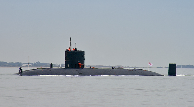 A Trafalgar class SSN (nuclear-powered hunter-killer submarine) of the Royal Navy, HMS Torbay rounding Calshot Spit, inward bound to the NATO Z Berth at Southampton Docks berth 38 for an informal visit, 13 November 2010. Image uploaded by me User:George.Hutchinson from a photograph taken by and supplied by Brian Burnell. The photograph should be attributed to Brian Burnell in this format. Wikipedia editors are reminded that the copyright remains with the photographer, and that the terms of the Creative Commons Attribution-ShareAlike 3.0 Unported Licence that allow editors to reuse this image apply to Wikipedia editors also, as they do to other reusers of this image. Breaches of the licence terms are not only unlawful, but are also antisocial, in that breaches discourage photographers from making their images freely available to everyone without payment. Non-Wikipedia users are requested to advise Brian Burnell of its use other than on Wikipedia.